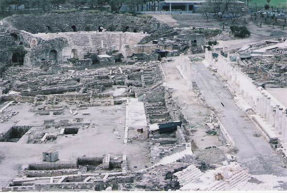 Personal picture of Albeiro Rodas. Bet Shean (Scythopolis), Israel, 2004, 27 kms south of Galilee, from lessons of Biblical archaelogy.